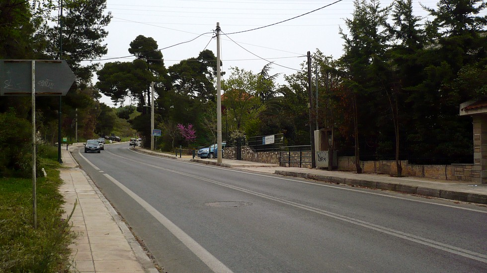 The above picture depicts the central Eleftheriou Venizelou Street at Penteli.